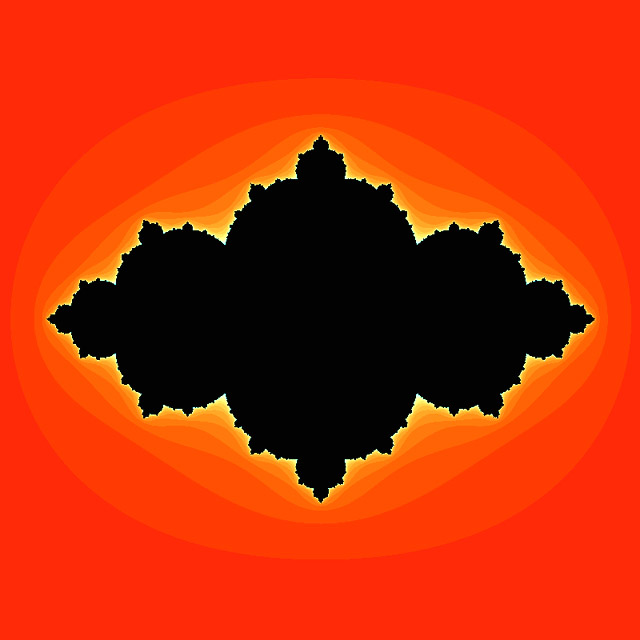 Filled Julia set for fc, c=1−φ where φ is the golden ratio